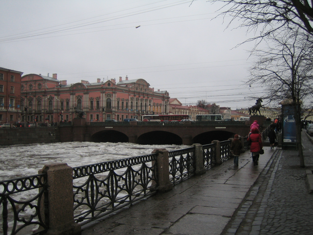 Anichkov Bridge in Saint Petersburg. December 2006.